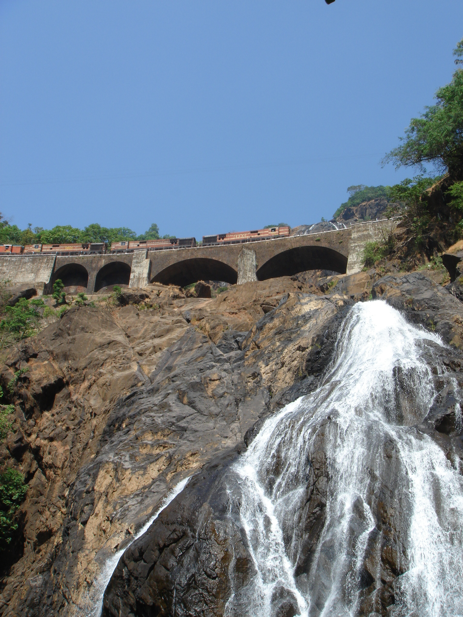 A view of the bottom section of Dudhsagar Falls, showing a train passing on the track running accross the falls. Taken by myself on 13/02/2006.